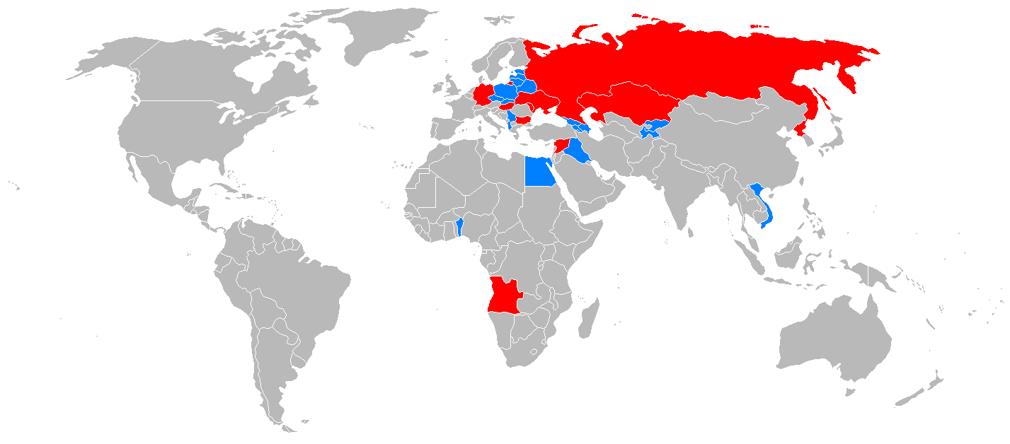 World map of Tupolev Tu-134 operators